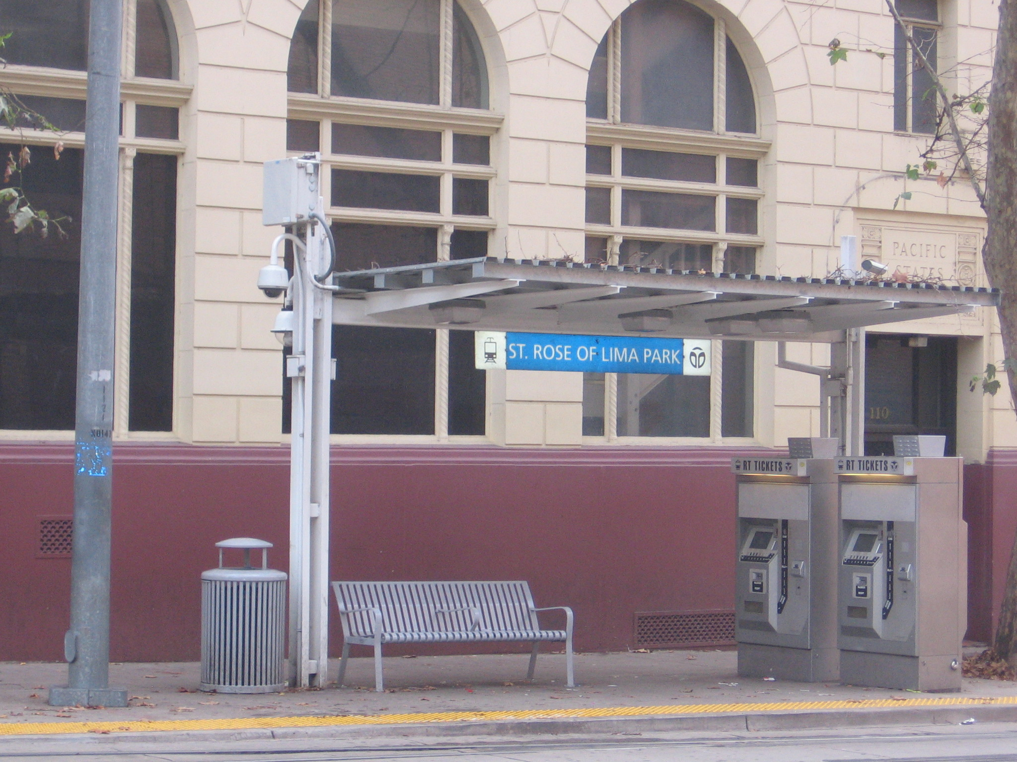 The St. Rose of Lima Park light rail station southbound on 7th and K in Sacramento, California, USA.